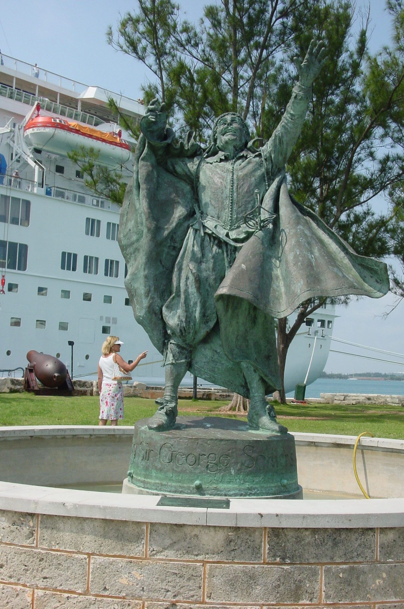 The statue of George Somers, the founder of Bermuda located in Kings Square,St. George's, Bermuda.